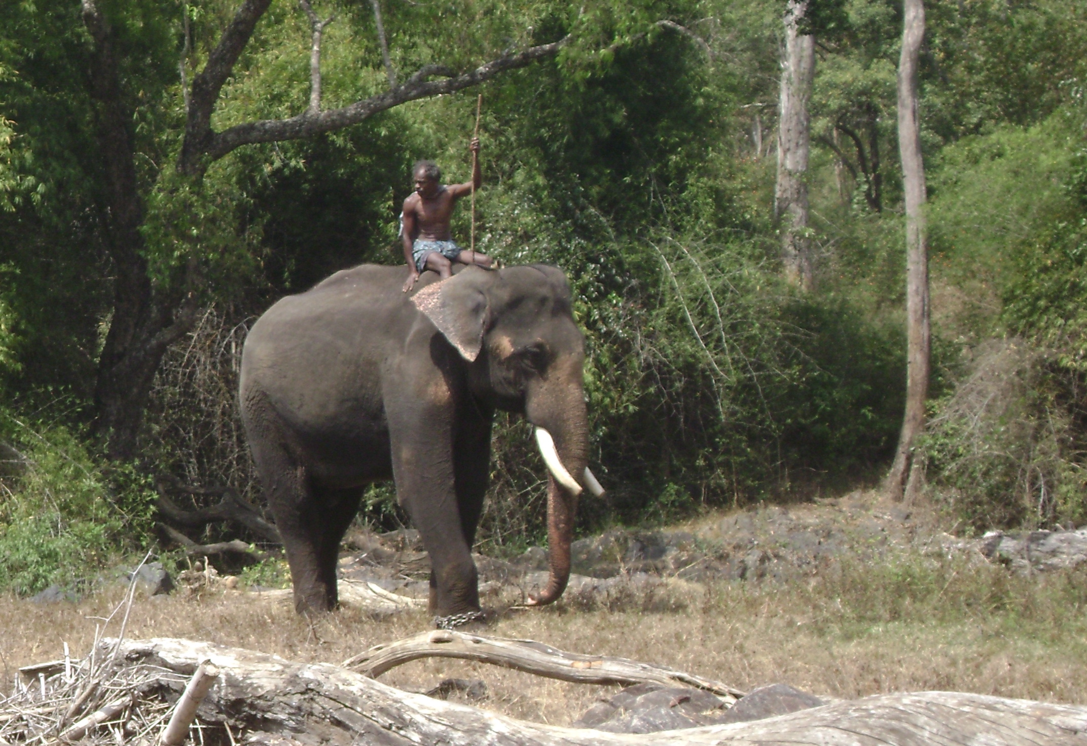 Working elephant near bamboo forest at Moyer River, Mudumalai National Park